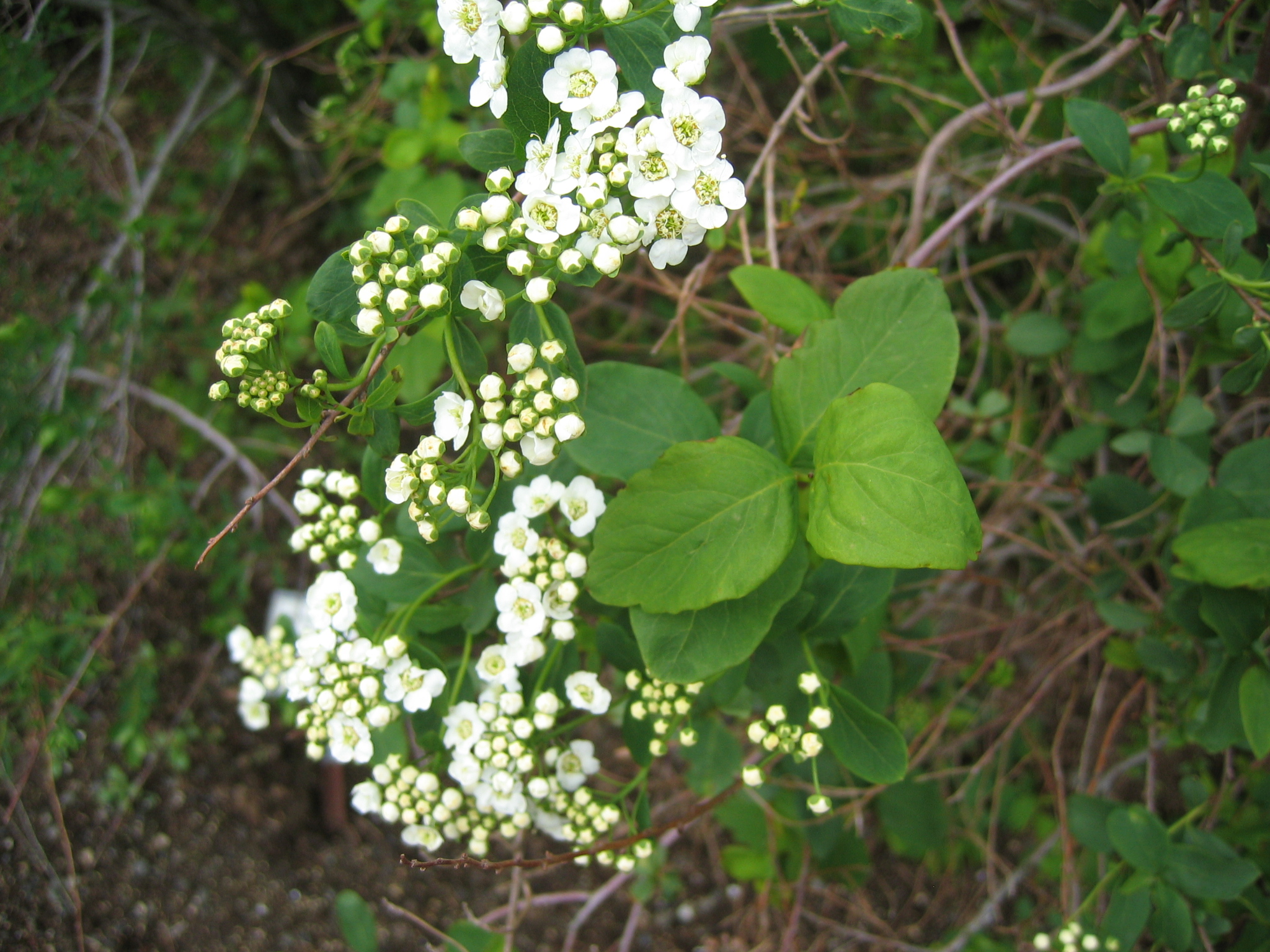 Spiraea media var serices - Photo by Salvor taken in the botanical garden in Reykjavik.